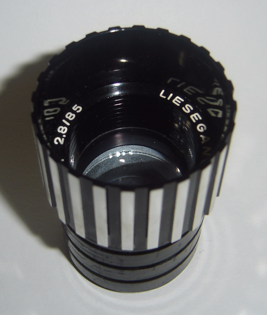 This is a version of the projection objective "Patrinast" produced for German optical company "Ed. Liesegang OHG", Duesseldorf (Germany). The aperture is given as 1:2.8, focal length 85mm, multi coated lenses. While projection objectives with a all-metal barrel were commonly used in slide projectors of the 1950 and early 1960s, this is a later plastics version with improved lens coating. Diameter of the tubus: 42mm. (full view)